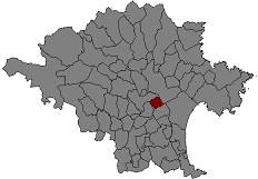 Location of Vila-sacra in Alt Empordà